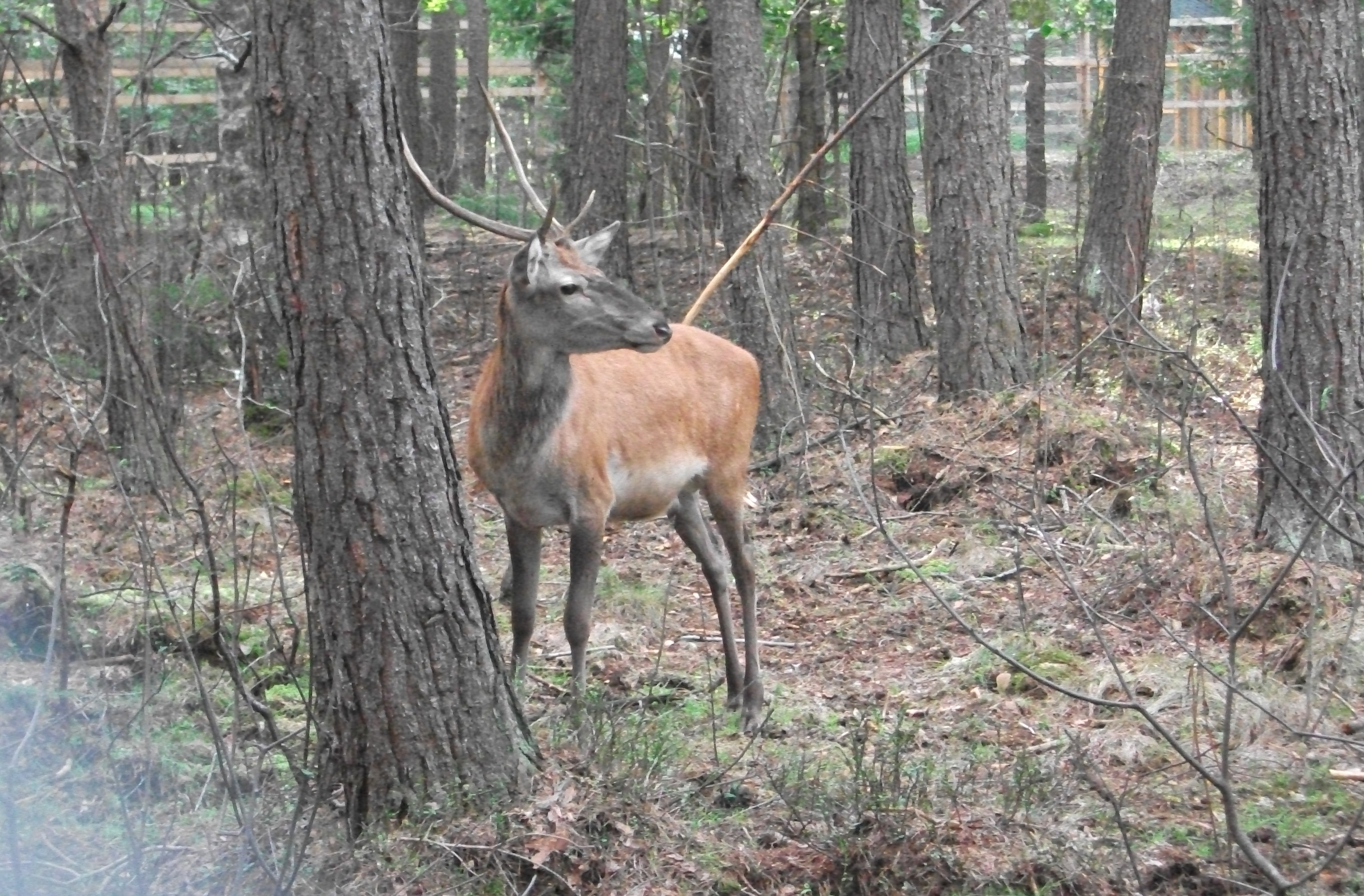 Red Deer - Buck